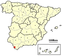 Location of Cádiz in Spain.